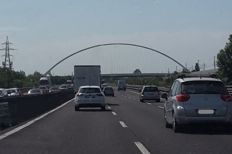 This is the central (arch) bridge of Reggio Emilia, seen from the highway.